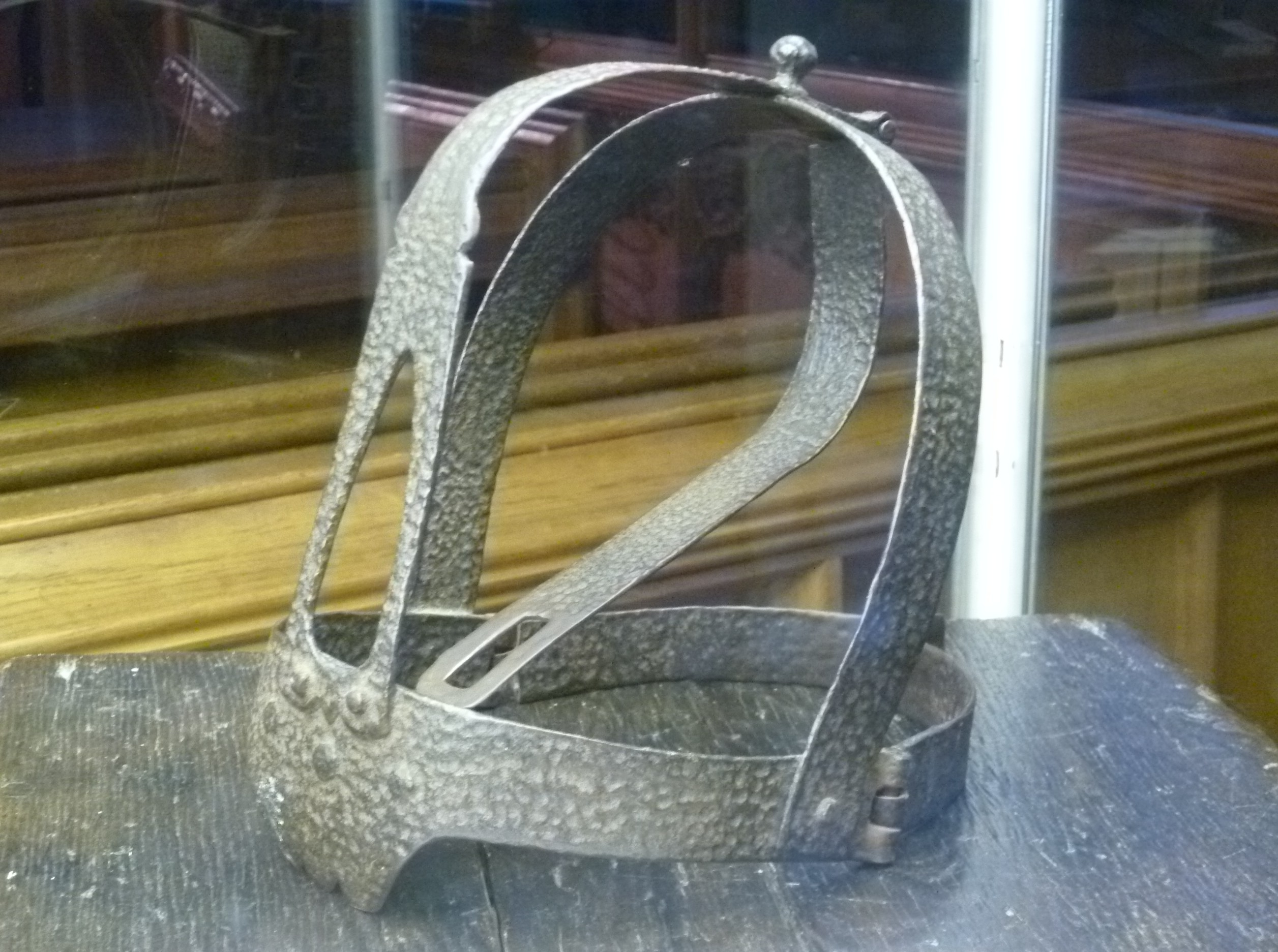 The 'Bishop's branks' of St. Andrews, Holy Trinity Church